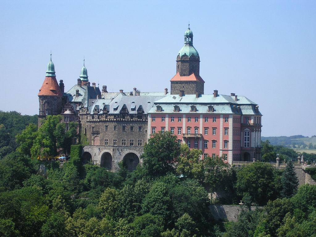 A panoramic view - the castle (Książ)